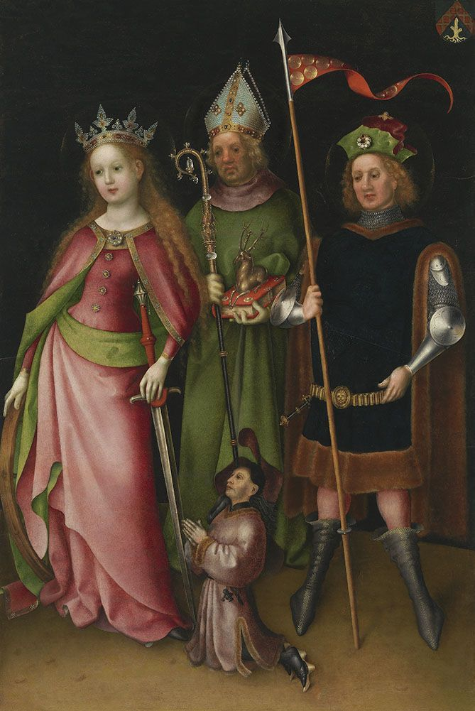 Saints Quirinus of Neuss (or of Rome) (left); Hubert (middle); Catherine of Alexandria, with a Donor. Walnut panel